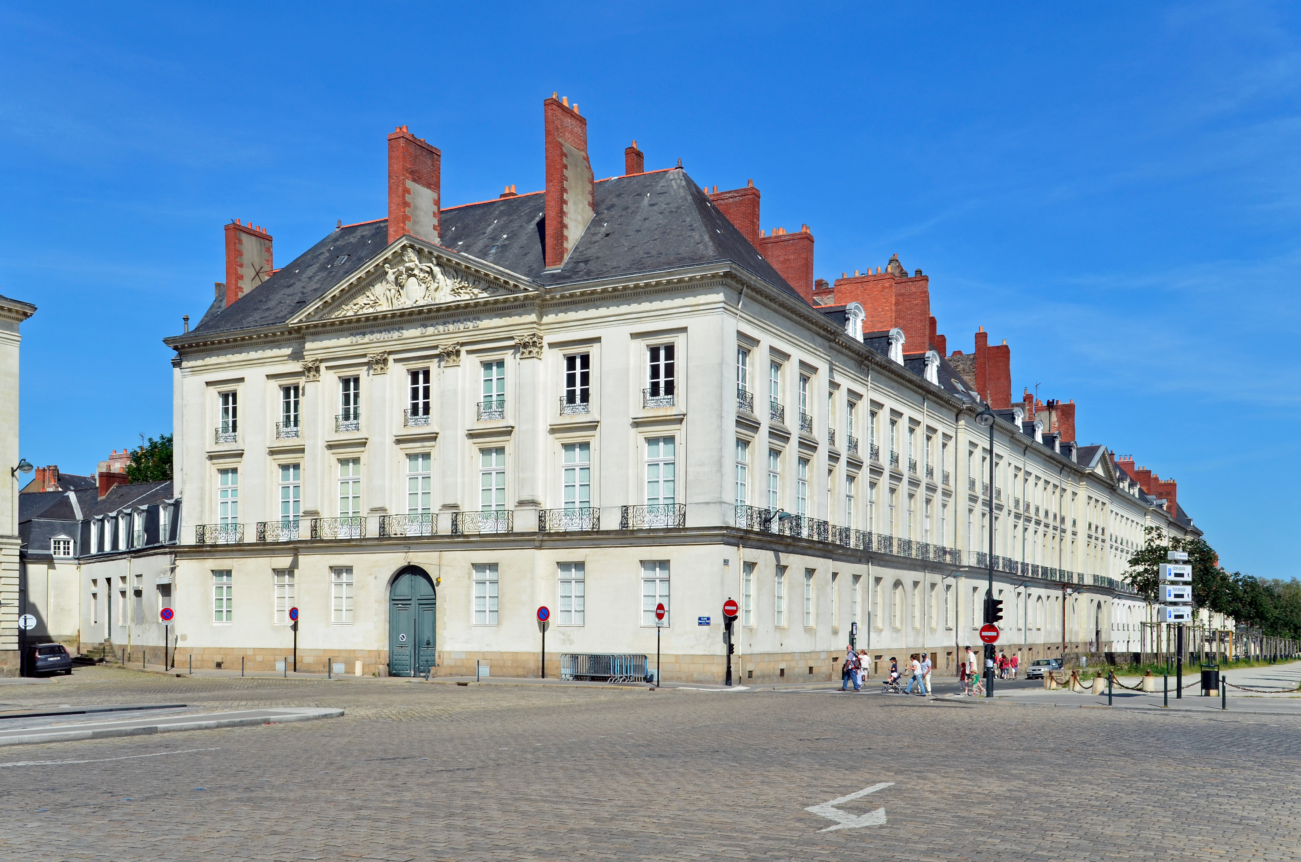 Hôtel d'Aux in Maréchal-Foch town square - Nantes, France